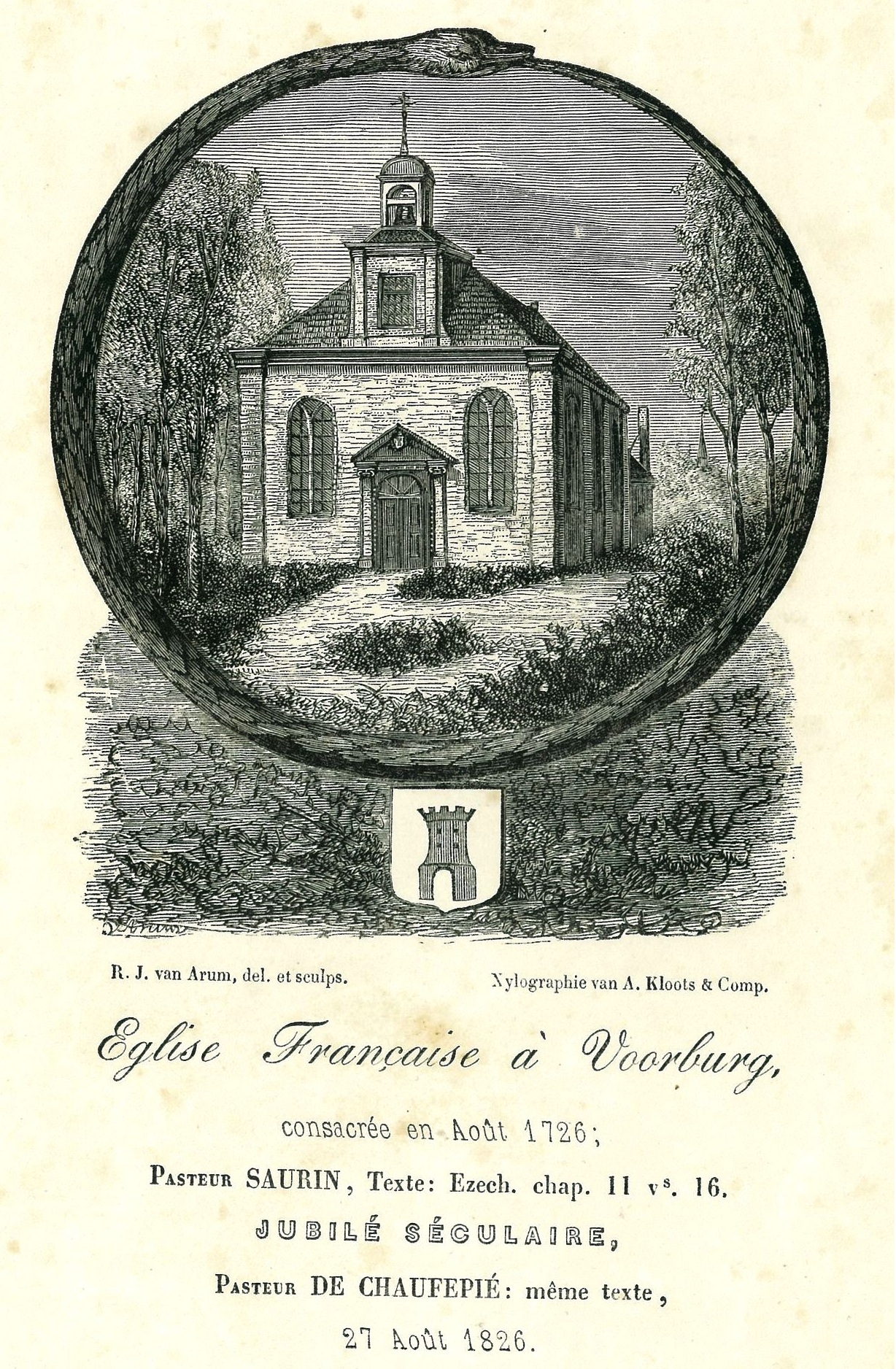 The French Church in Voorburg (Province South Holland, Netherlands), 1850.